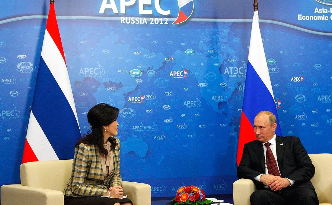 Vladimir Putin met with Prime Minister of Thailand Yingluck Shinawatra on the sidelines of the APEC summit.